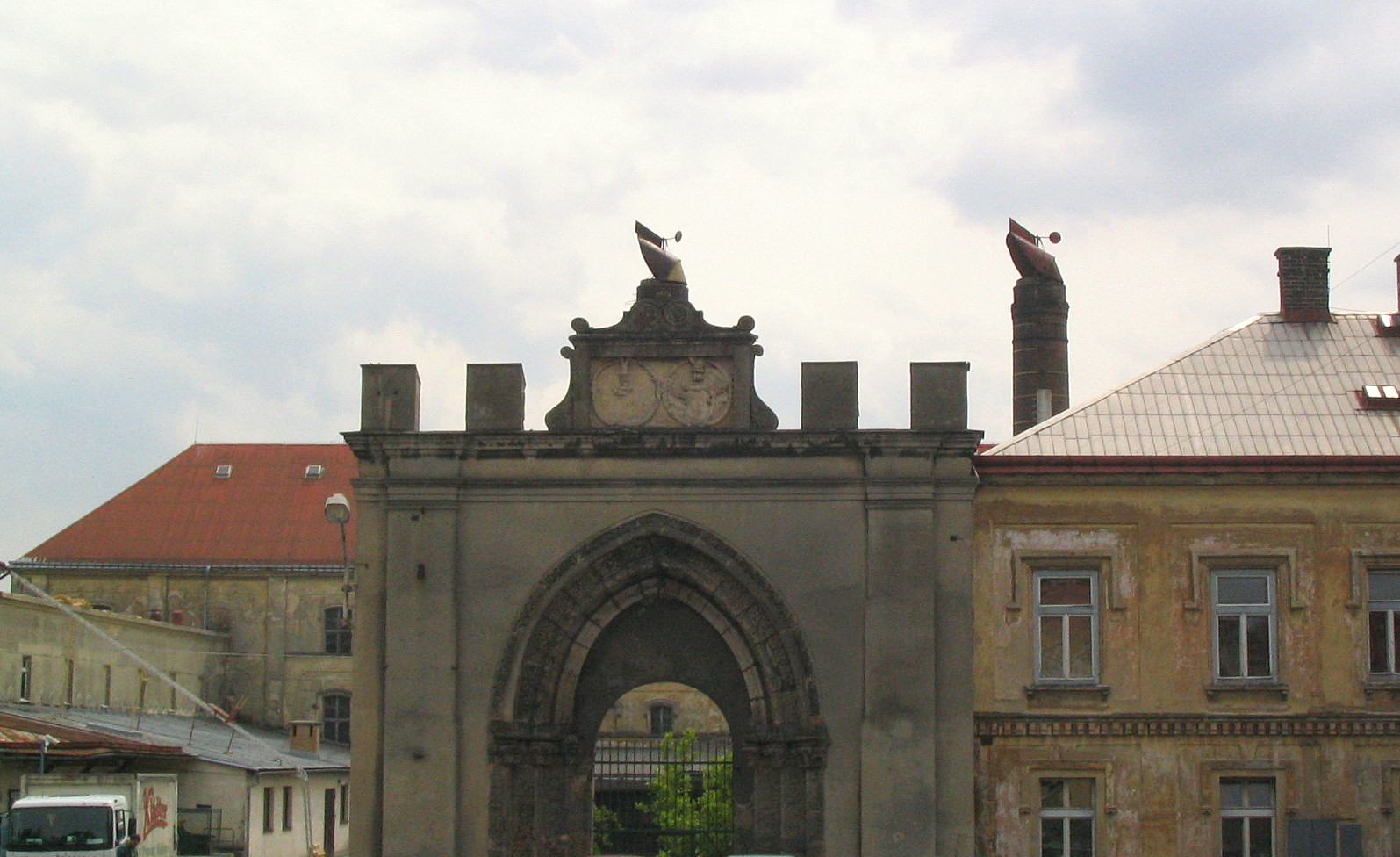 Klášter Hradiště nad Jizerou. Free standing original Gothic portal (c. 1260) wih fragment of northern wall of former monastery church destroyed by Hussites in 1420. Later a chateau was built on the site (converted to brewery since 19th century). Above the portal arms of Budovec family with year 1613.